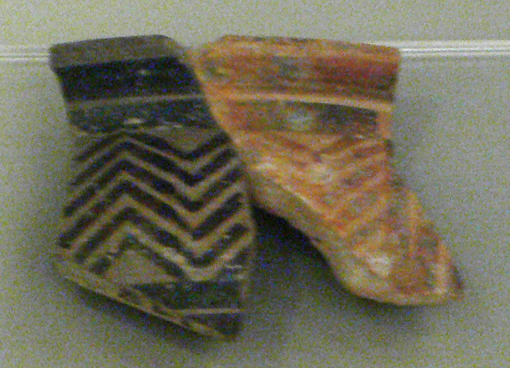 Matching potsherds from Areopag, Athen in different firing stage, probably used as firing aids.